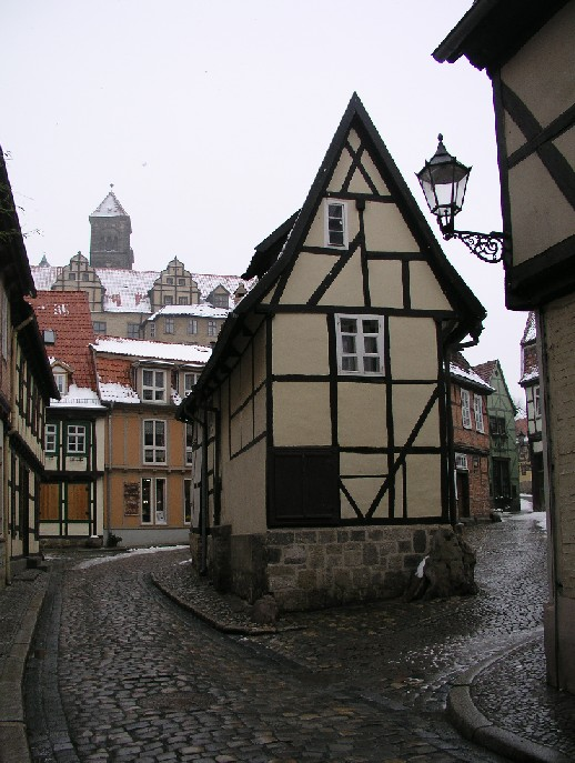 Finkenherd in Quedlinburg, Germany.